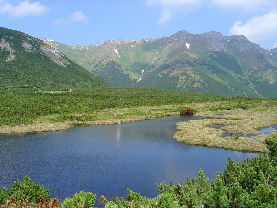 Trojrohe pleso in Dolina Bielych plies